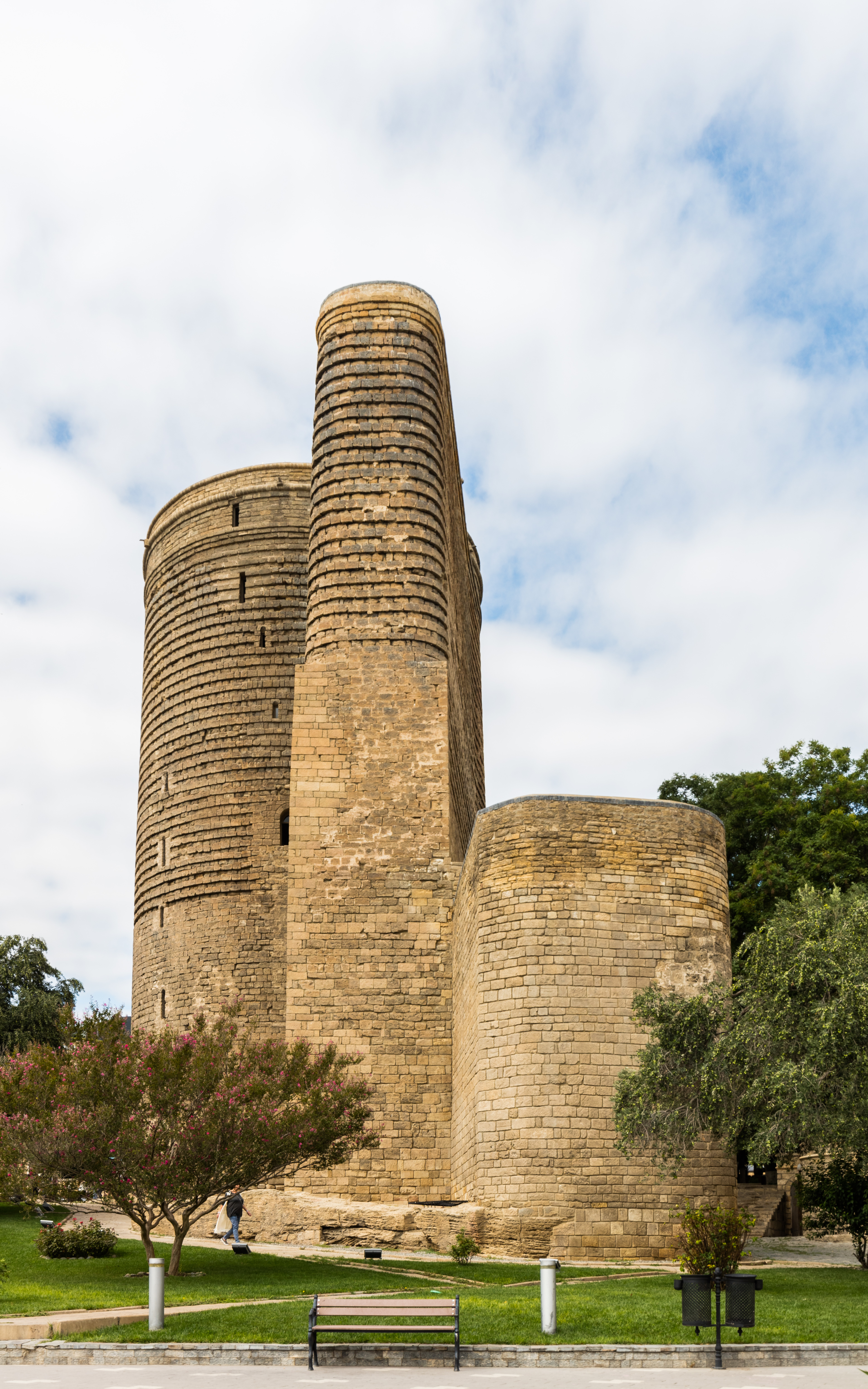 Maiden Tower, Baku, Azerbaijan